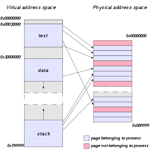 Virtual address space and physical address space relationship